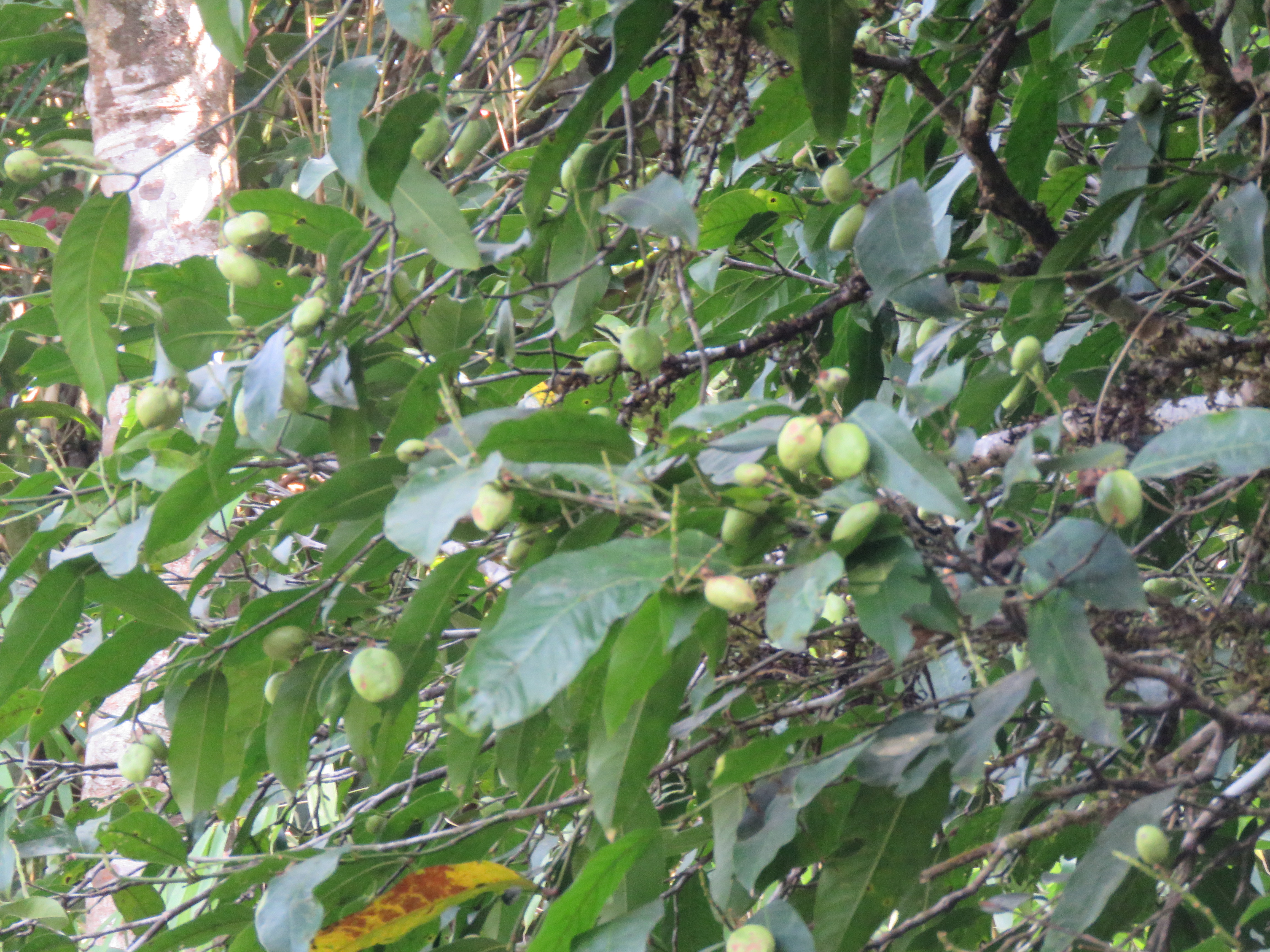 Atuna indica at Kakkayam Dam